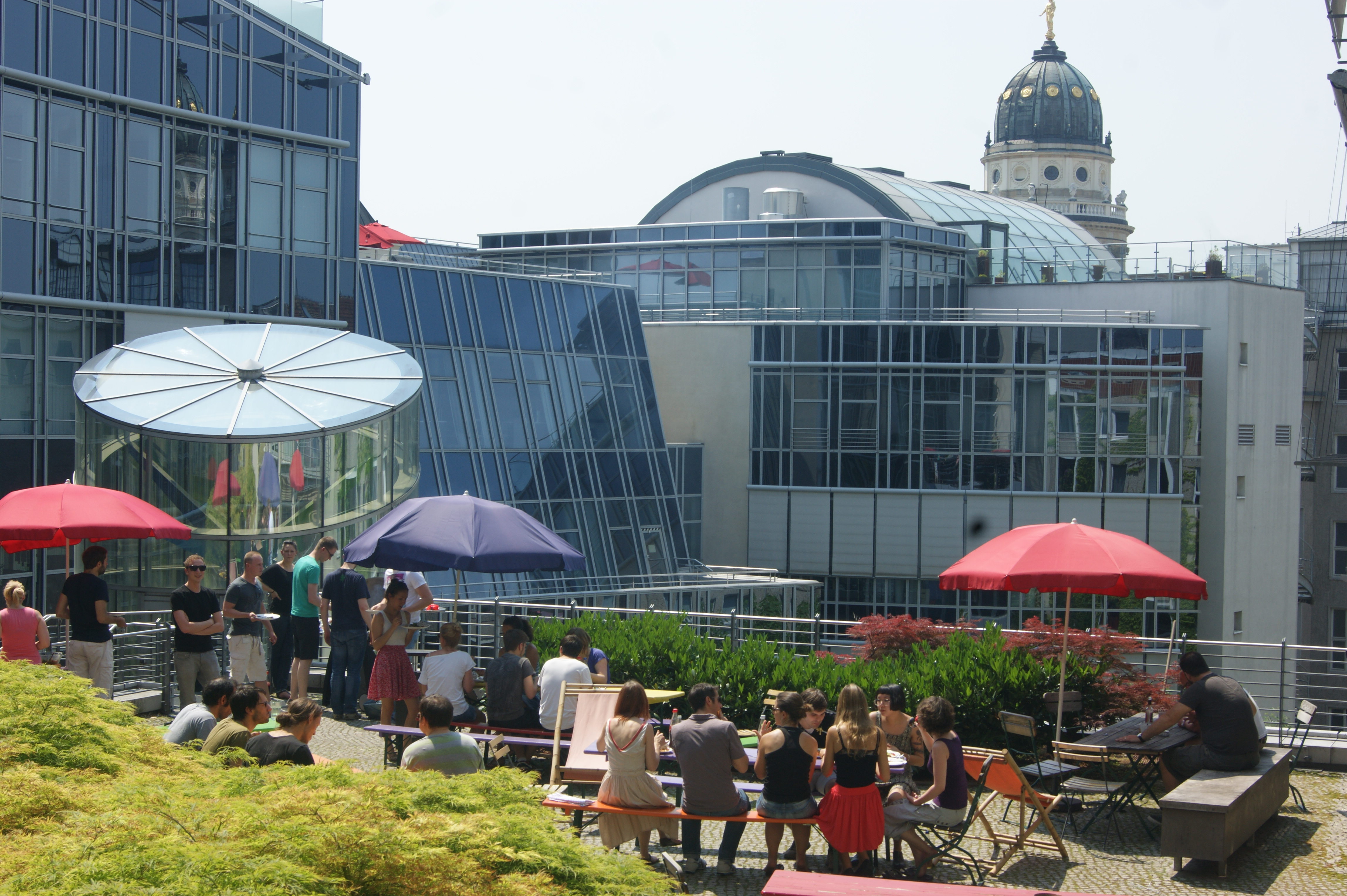 GameDuell head office Berlin photographed from its rooftop terrace